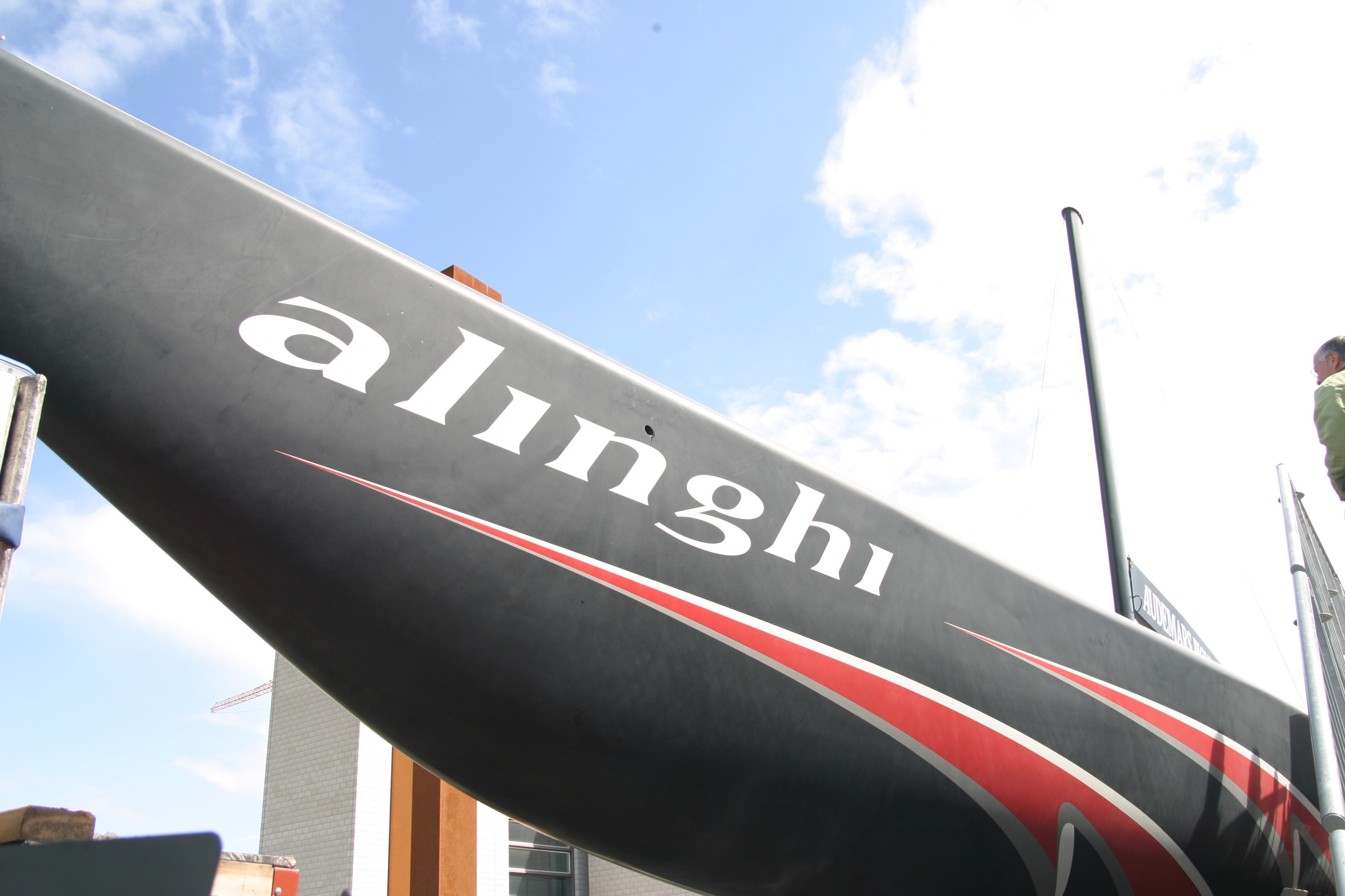 Alinghi on display at the EPFL, 30th of August 2006